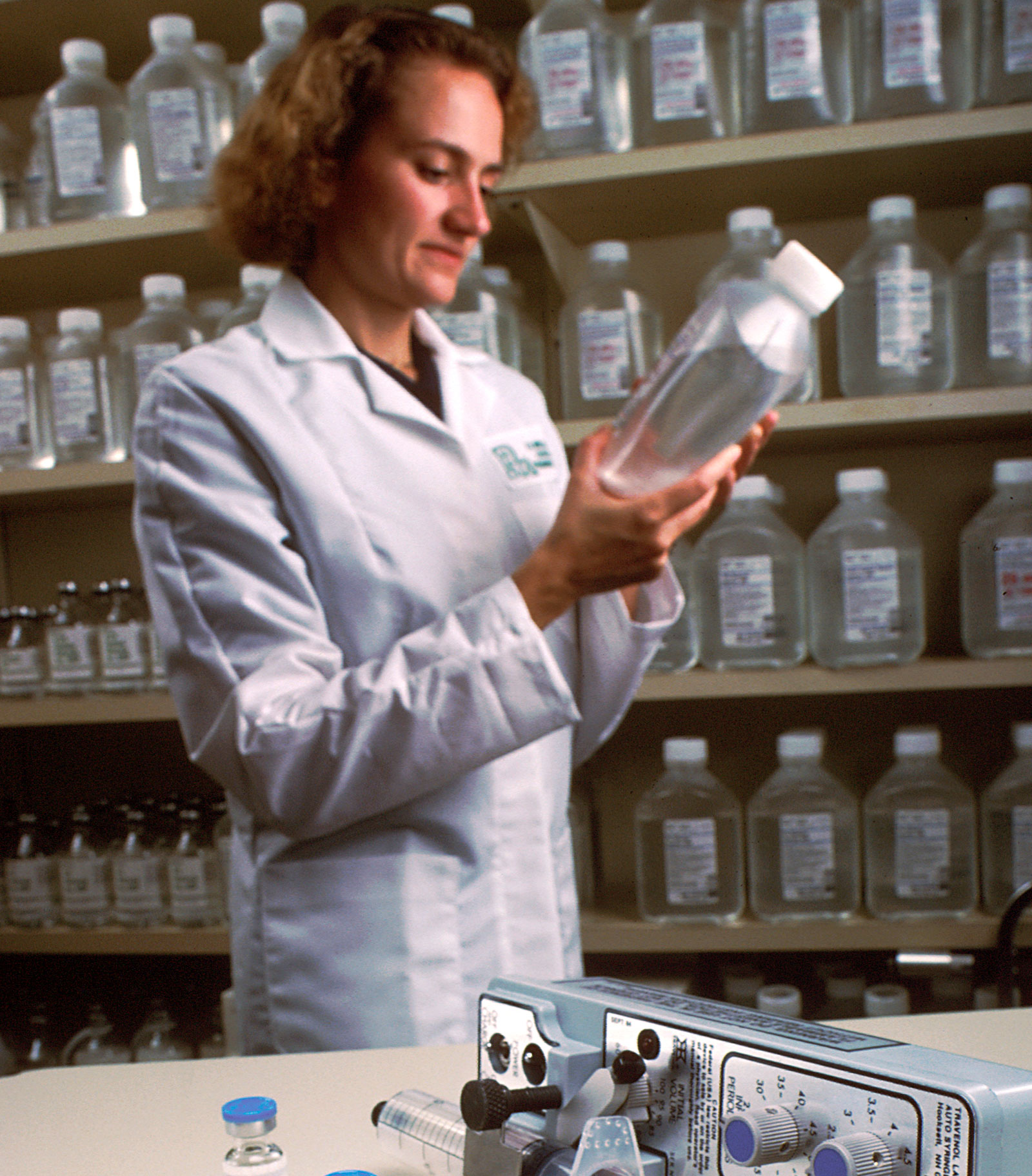 Title Pharmacist Description A female pharmacist is looking at a liquid solution. Topics/Categories People -- Health Professional Treatment -- Other Interventions Type Color, Photo Source Clinical Center 13th Floor Pharmacy